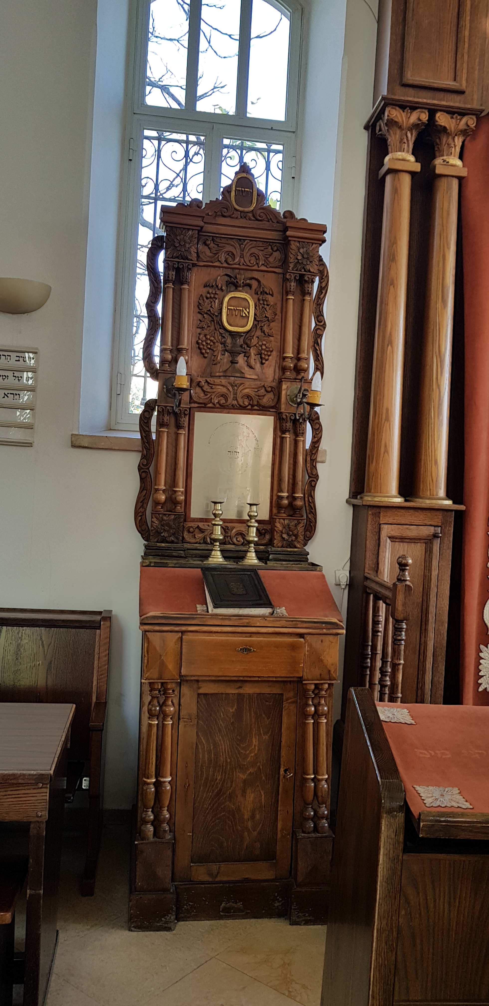 עמדת התפילה העתיקה מעץ